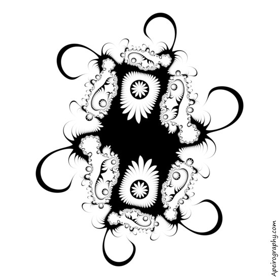 An example of a biomorph, a strange, eerily biological-looking image generated by algorithms involving complex numbers and utilizing the visualization method discovered by Dr. Clifford Pickover.